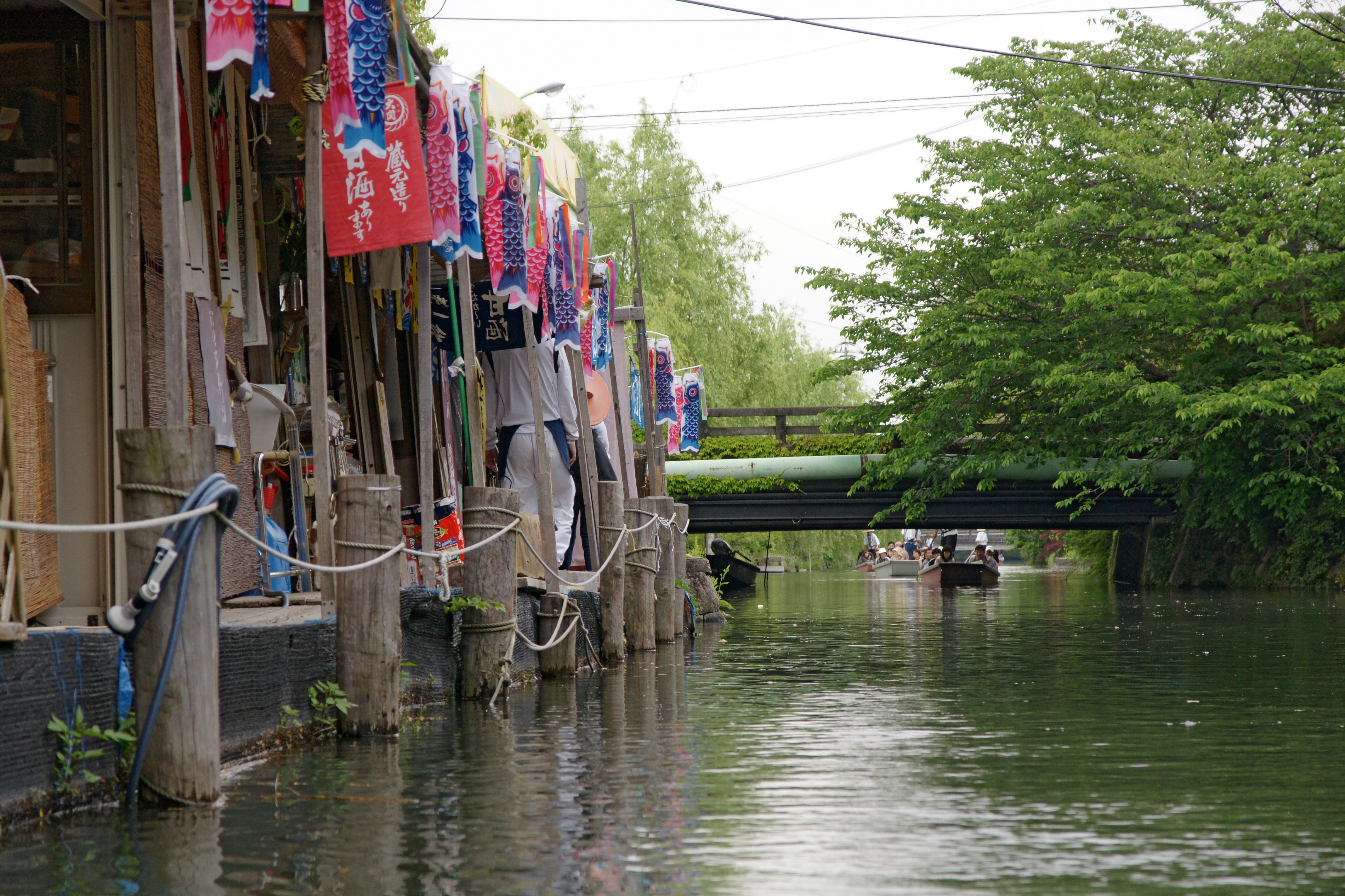 Yanagawa, Fukuoka prefecture, Japan